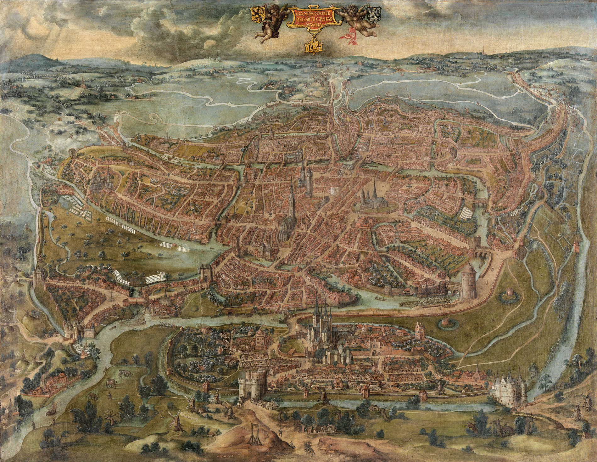 Ghent, 1534 poster